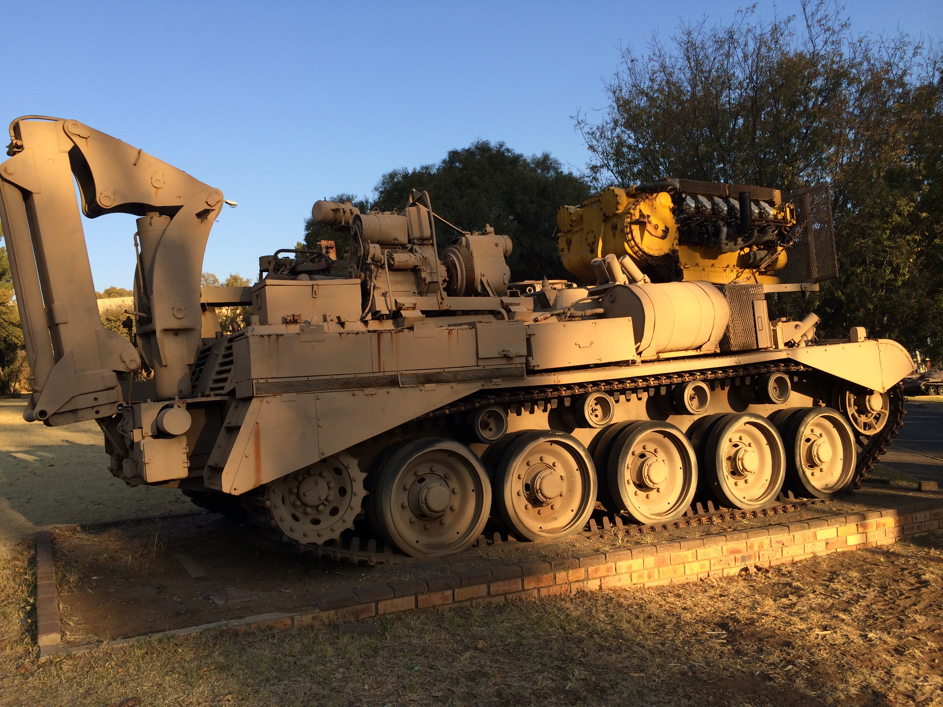 Comet Engineering Tank at 1 Tank Regiment, Tempe Base - Bloemfontein.